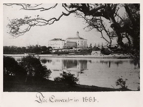 Convent of Our Lady of the Sacred Heart at Lake Merritt Campus, now Holy Names University, Oakland, CA, circa 1884.